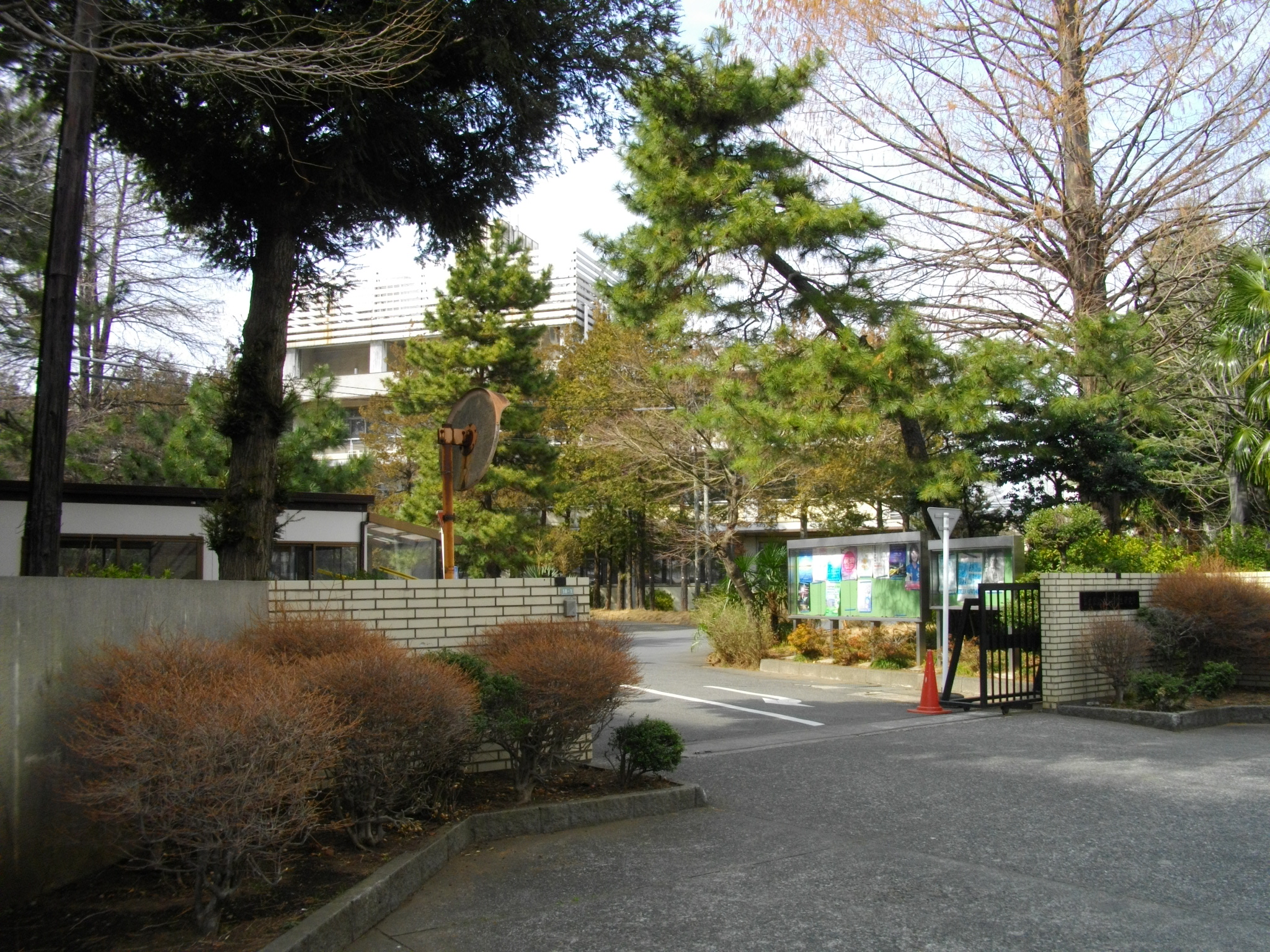 Japan National Institute of Health Sciences